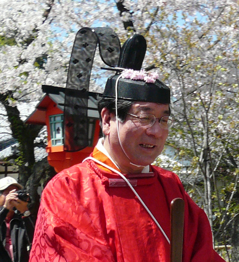 Hirano-sakura-matsuri at Hirano-jinja, Kyoto, Kyoto prefecture, Japan.